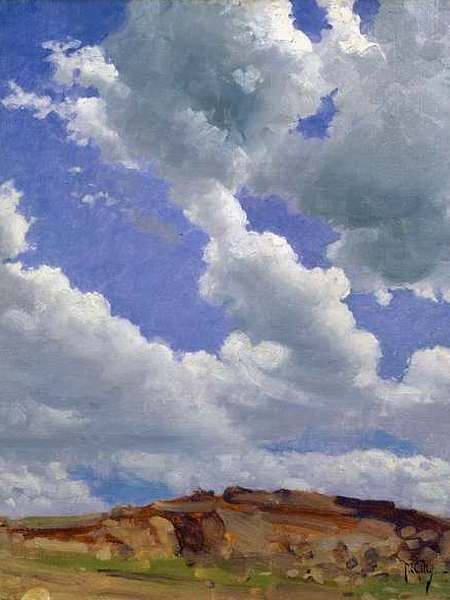 Clouds